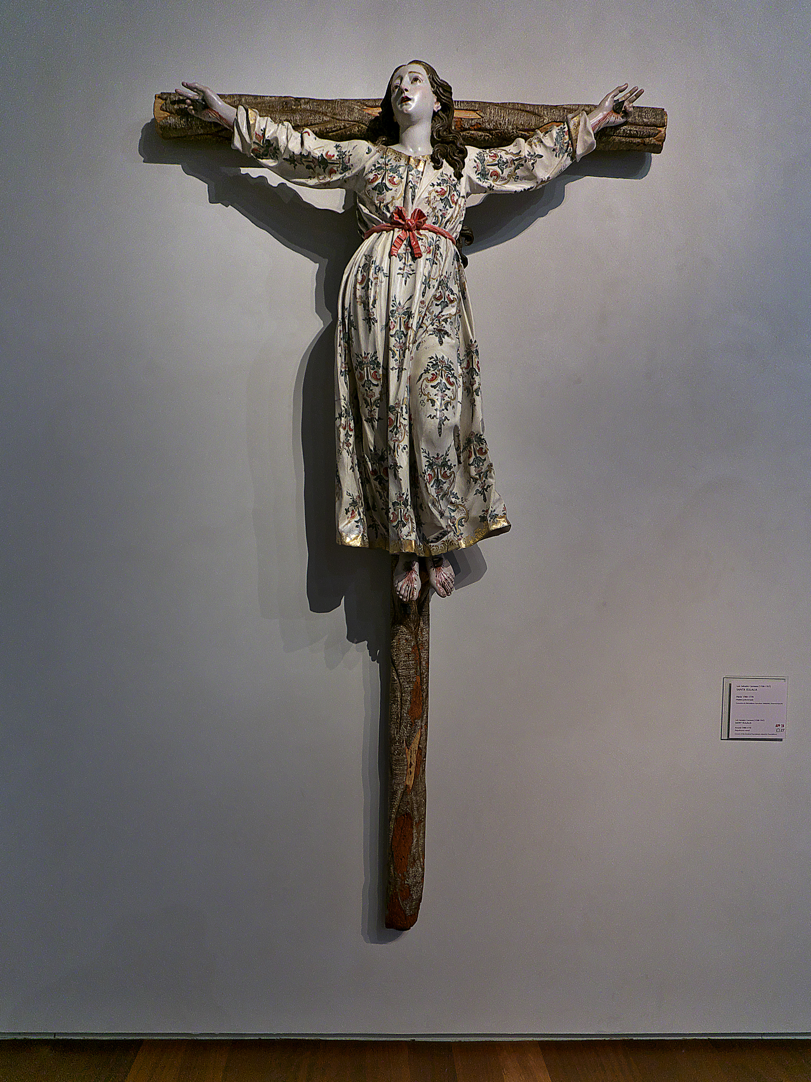 Saint Eulalia. Luis Salvador Carmona, around 1760-1770. Polychrome wood. Convent of the Discalced Mercedarians, Valladolid. Disentailment.